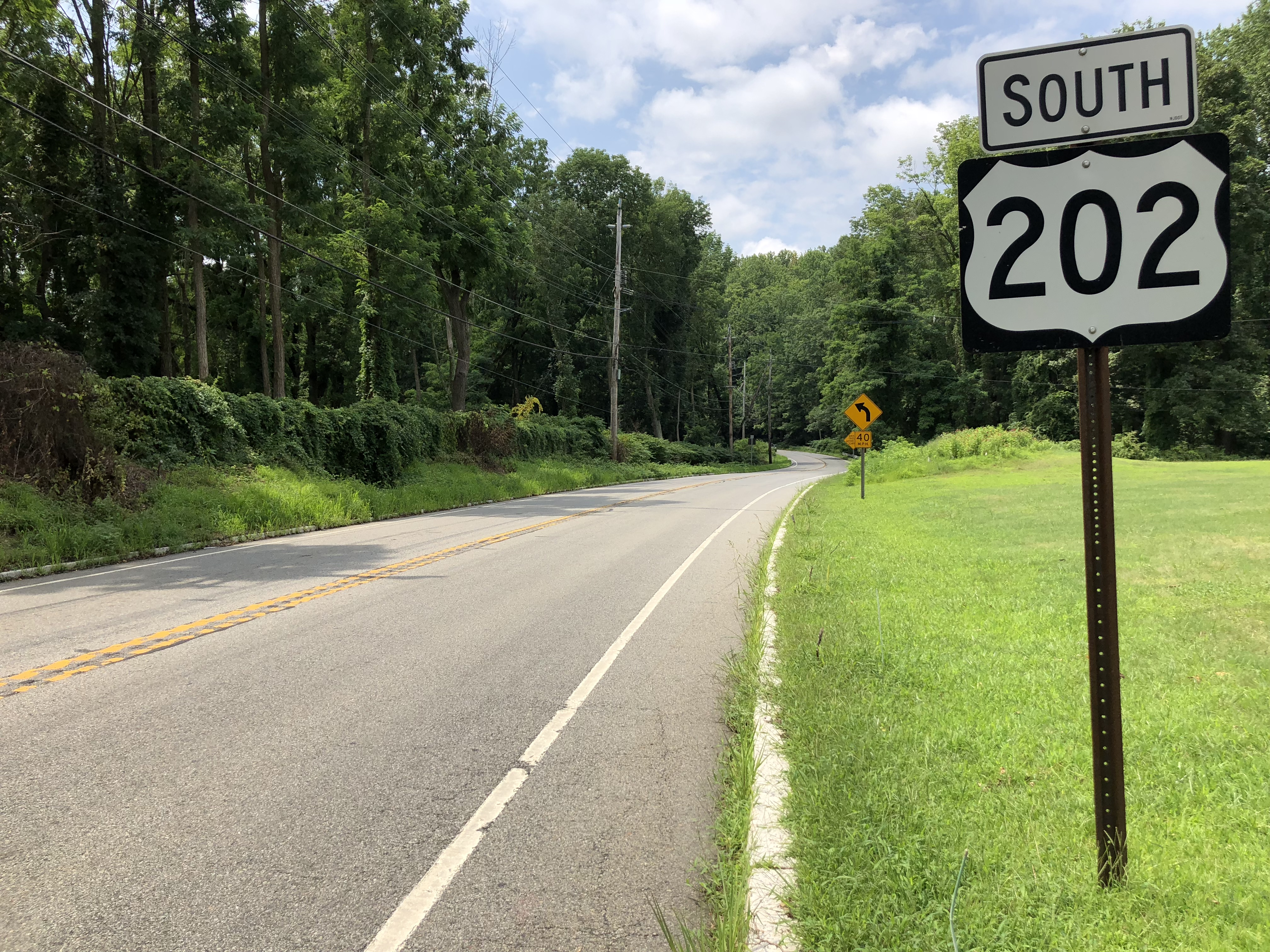 View south along U.S. Route 202 (Mount Kemble Avenue) at Morris County Route 646 (Tempe Wick Road/Glen Alpin Road) in Harding Township, Morris County, New Jersey